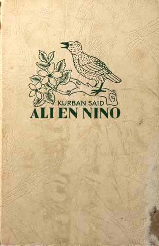 Ali en Nino (Ali and Nino). Dutch